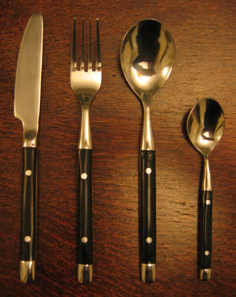 Four pieces of cutlery (knife, fork, tablespoon and teaspoon).